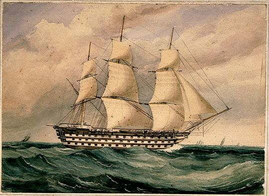 H.M.S. Queen, 110 Guns Captn Sir Henry John Leeke